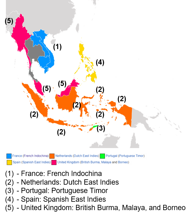 European Colonies in Southeast Asia graphic includes both color-coded and numbers regions.